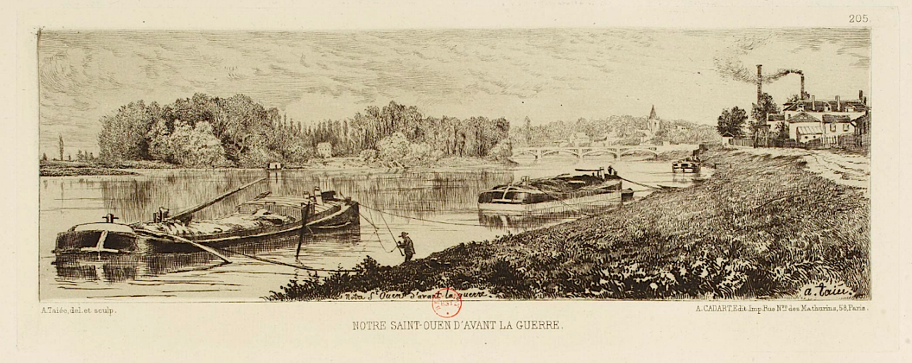 Notre Saint-Ouen d'avant la guerre, etching # 205, published in L'Illustration nouvelle, Paris, A. Cadart et Luce, 1873.